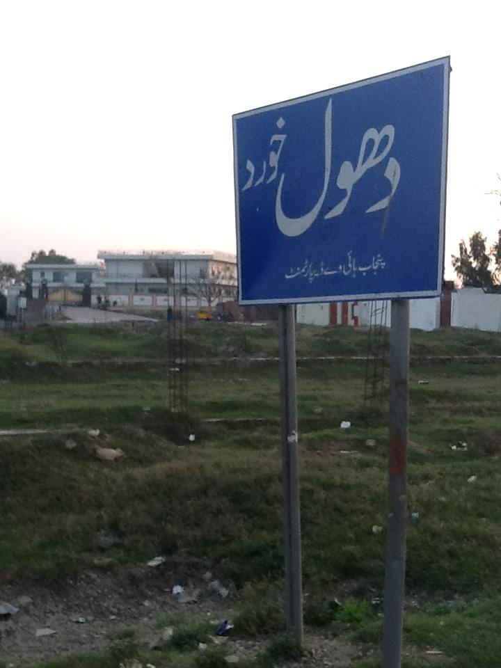 Name board of Dhool Khurd at Dinga-Gujrat Road